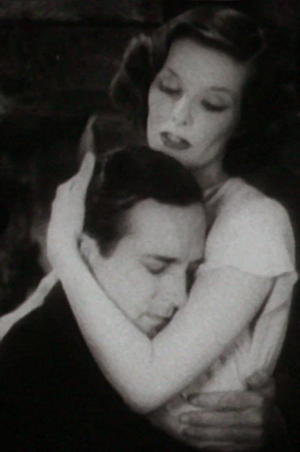 Screenshot of Katharine Hepburn and David Manners from the trailer for the film A Bill of Divorcement